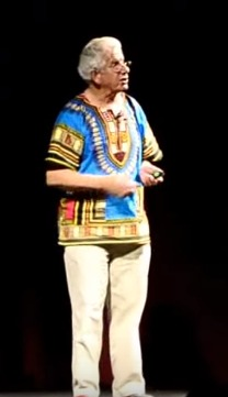 Adam Hart-Davis, speaking at the Ratio Forum for Popular Science, 27 April 2013.